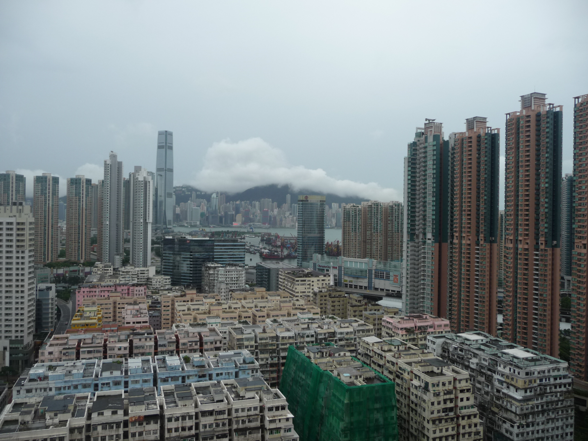 Metro Harbour View West Kowloon and HK Island from the 30th floor